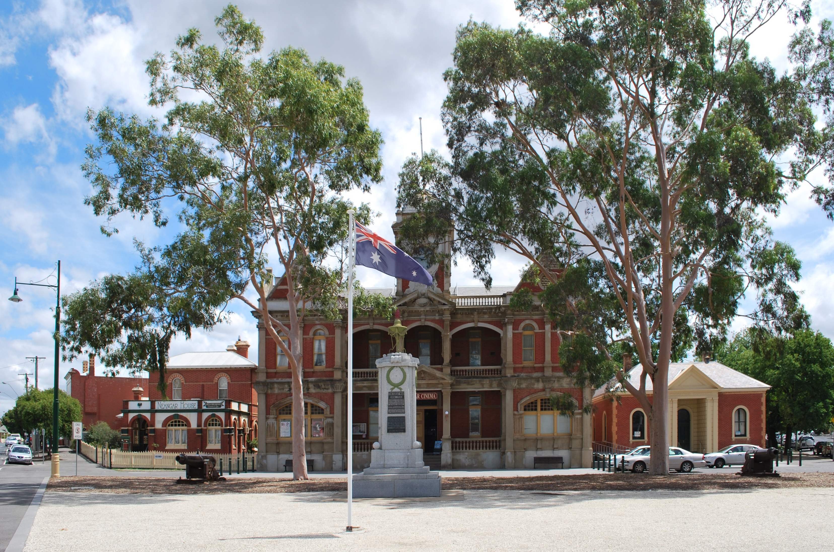 Brassey Square, the civic centre of Eaglehawk, Victoria. The complex includes the former post office on the left, the former town hall in the centre and the Mechanics Institue on the right. Behind the buildings, out of shot, is the former Court house. A war memorial is in the foreground.